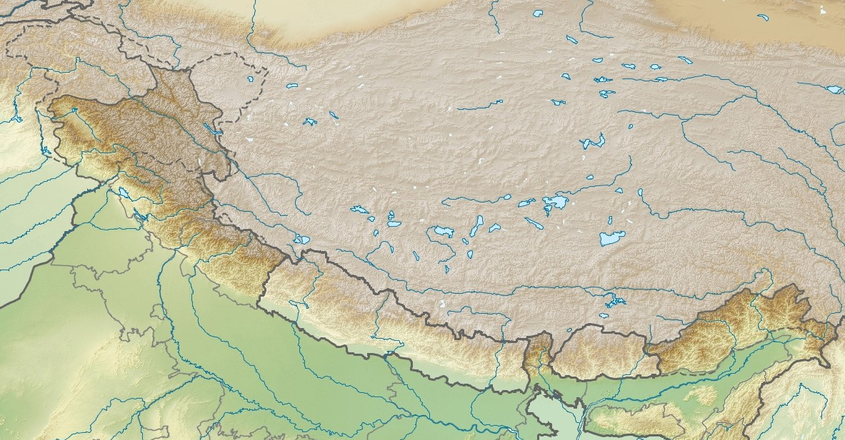 Sino-Indian border relief location map